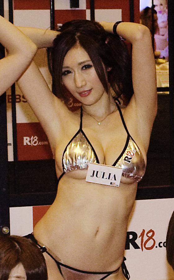 Julia is a Japanese AV idol.